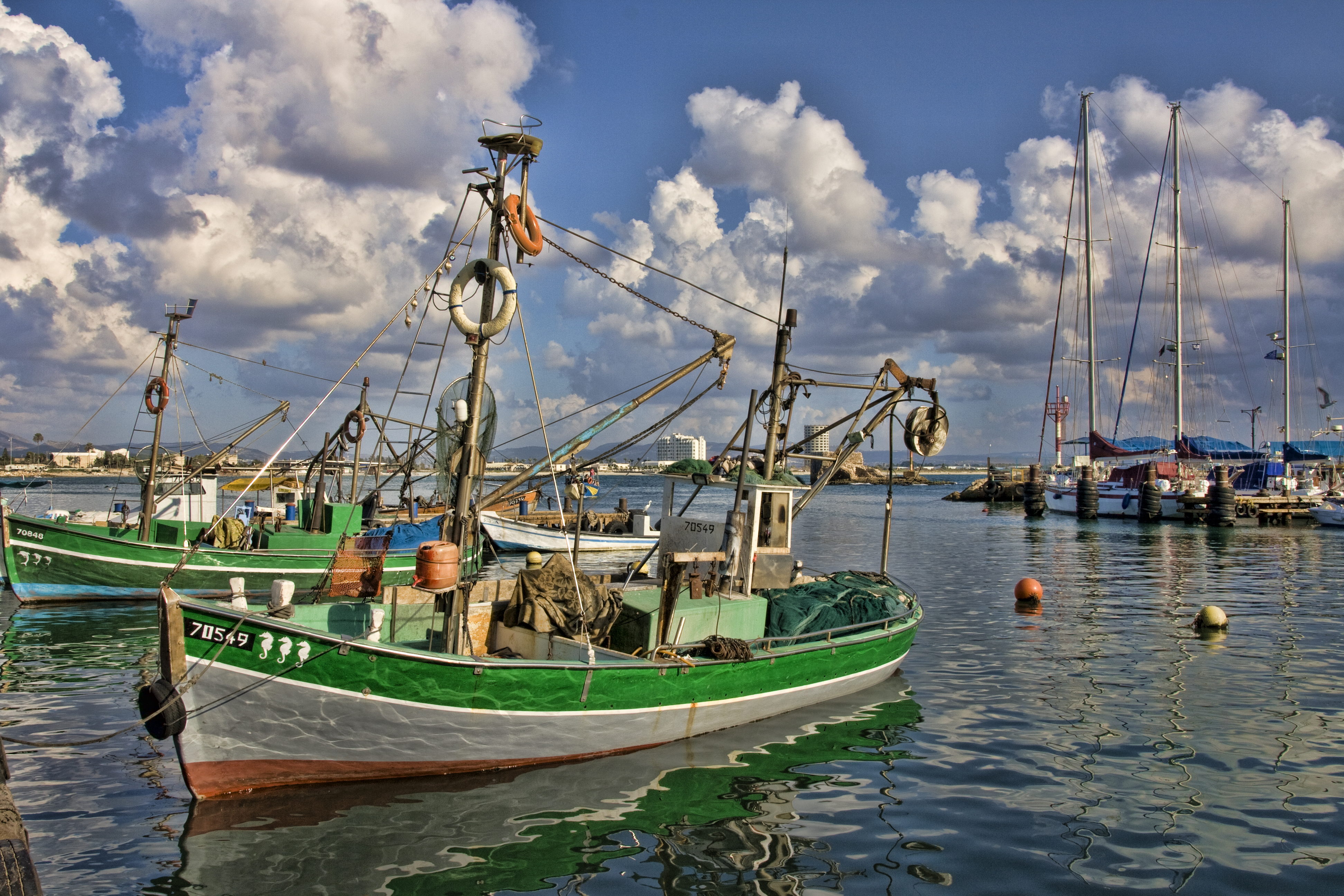 Fishing boat in Akko.